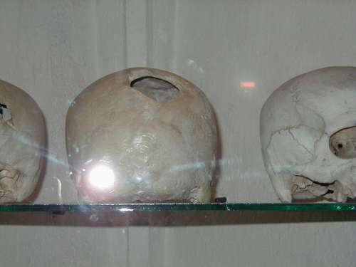 Successful trepanation. you can tell, because the edges of the hole had started to grow back before s/he died.